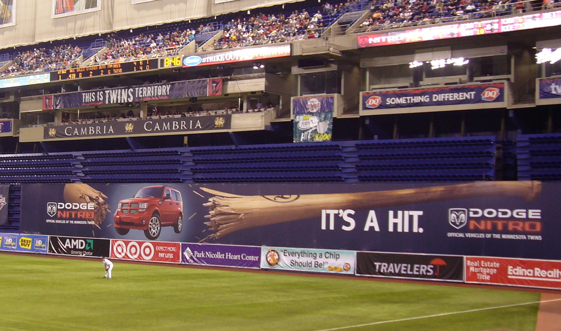 Created by user and released into the public domain. Category:Images of Minneapolis, Minnesota